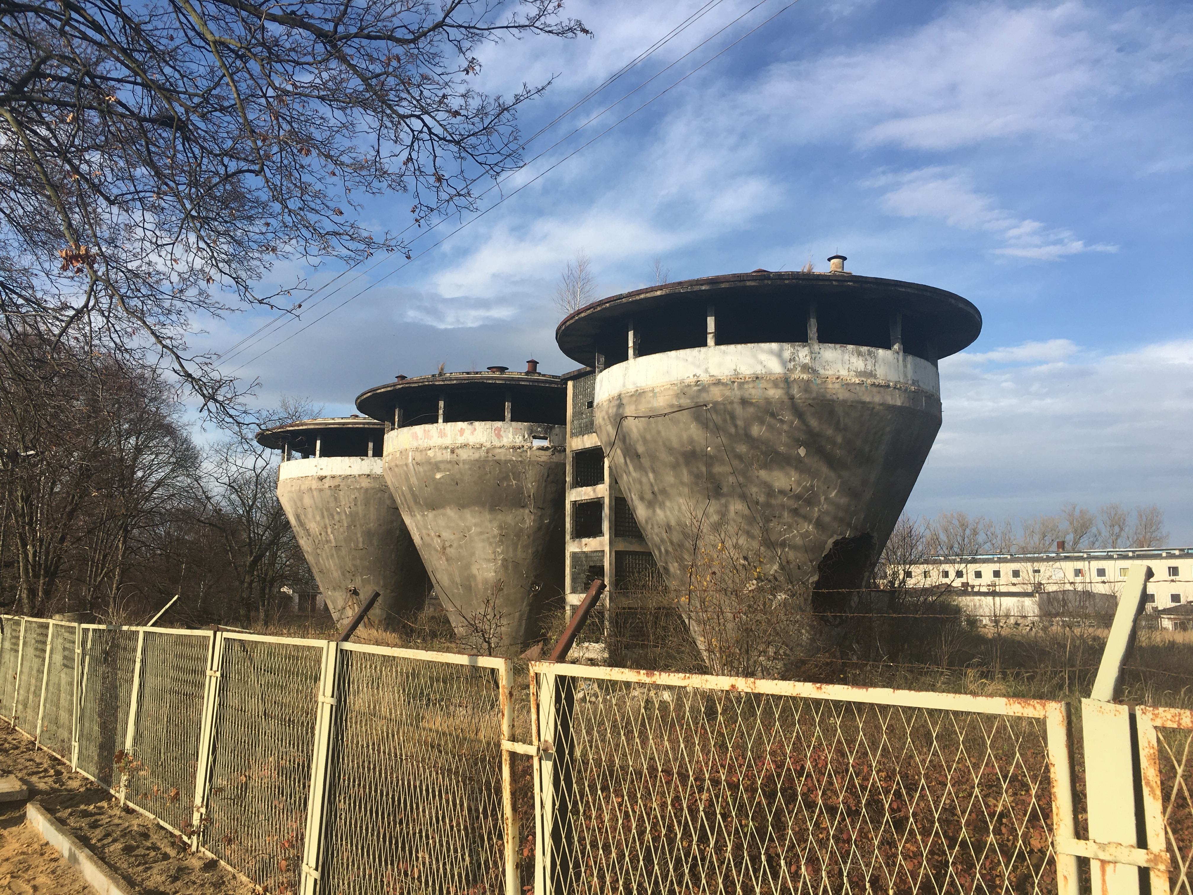 Ruins of the Koniecpol Fiberboard Works